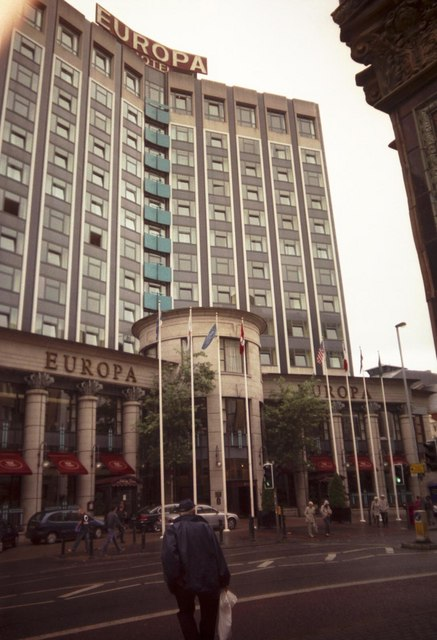 The Great Survivor - The Europa Hotel. Bombed by the IRA on no less than 11 separate occasions, the Europa has survived as one of Europe's great hotels. President Clinton, himself a no mean survivor chose this hotel as his base on two of his many his visits to Northern Ireland. Located in Great Victoria Street, the Europa stands next door to the Grand Opera House. 310129